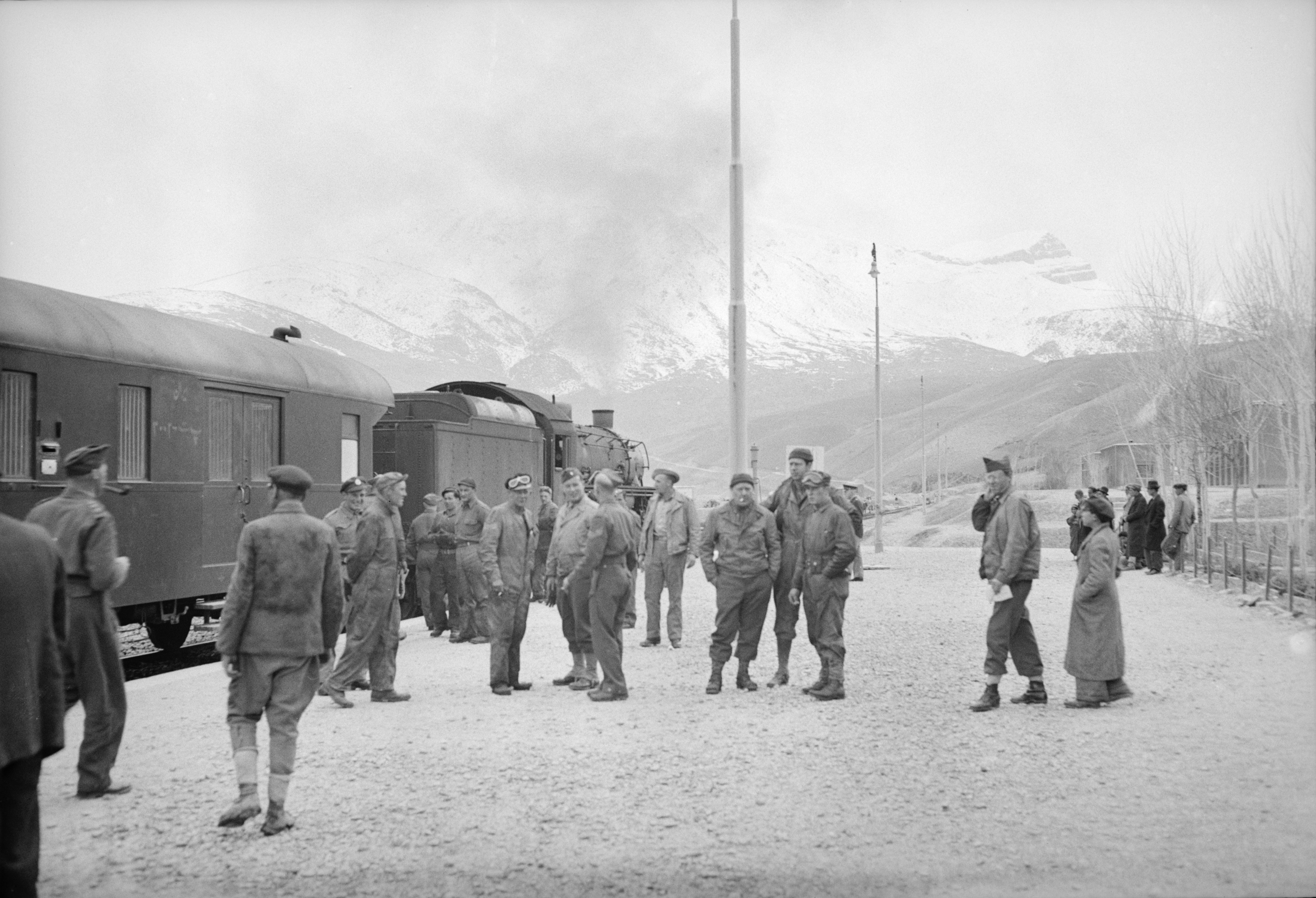 American and British soldier trainmen standing about at a station on the route for supplies to Russia. An American engine is seen at the head of the train at left, somewhere in Iran.